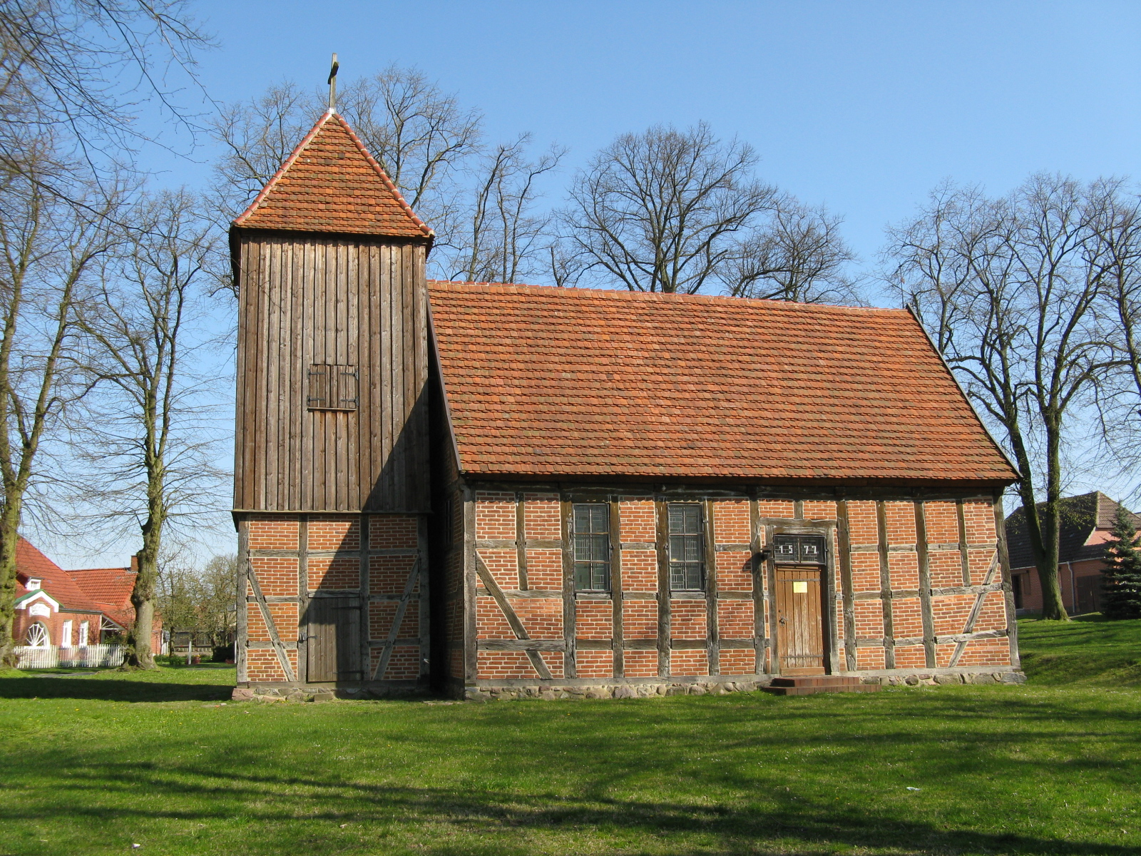 Church in Benzin, Mecklenburg-Vorpommern, Germany